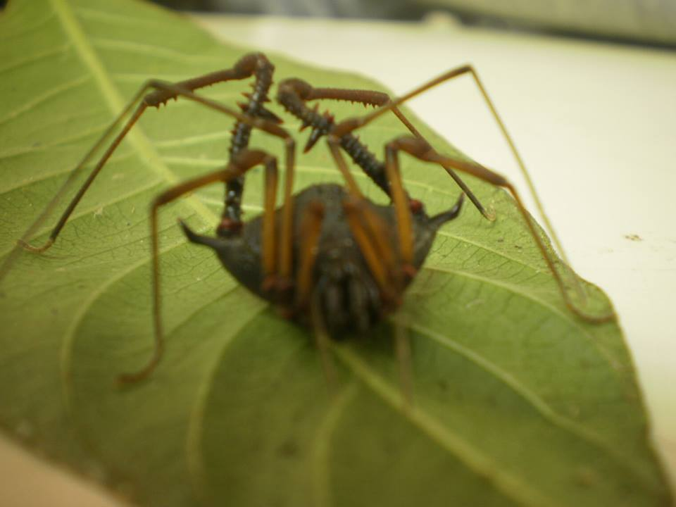 Harvestsman's maleover leaf